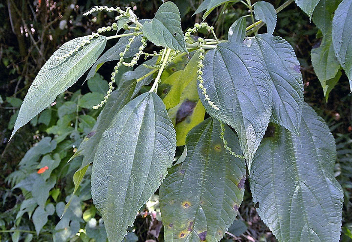 Boehmeria caudata, El Dorado area, Colombia